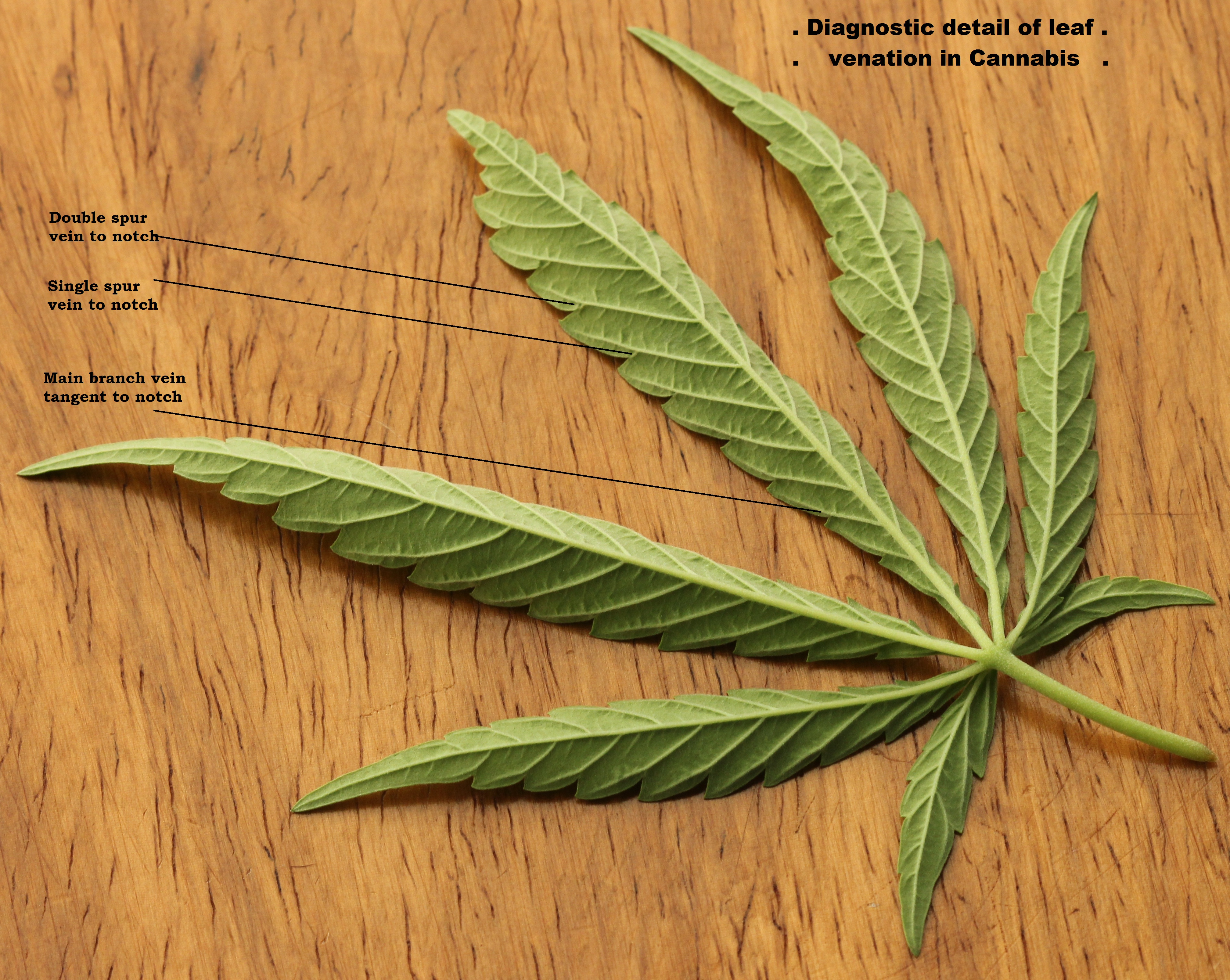 Cannabis sativa leaf with diagnostic venation annotated